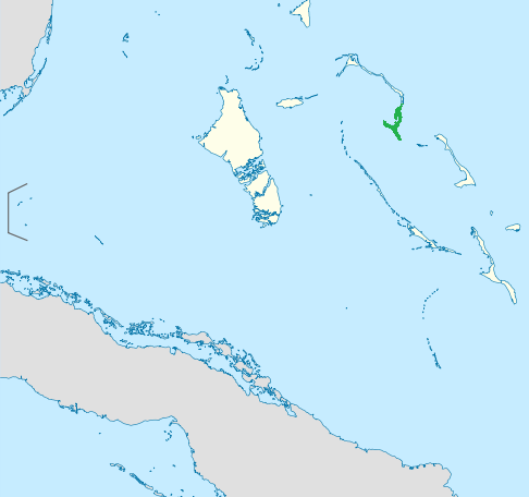 Location map of the Bahamas Equirectangular projection, N/S stretching 105 %. Geographic limits of the map: * N: 27.5° N * S: 20.7° N * W: 80.7° W * E: 70.8° W